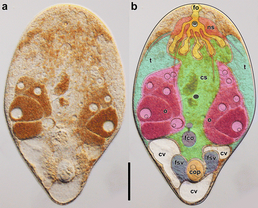 Image of a mature and live specimen of Isodiametra pulchra without (left) and with superimposed colors (right) to illustrate the general morphology of acoels. From top to bottom: yellow: frontal organ (fo); red: nervous system (ns); green: central syncytium (cs); cyan: testes (t); pink: ovaries (o); gray: mouth; purple: female copulatory organs (fco) composed of seminal bursa, bursal nozzle, and vestibulum (from posterior to anterior); white: chordoid vacuoles (cv); blue: false seminal vesicles and prostatoid glands (fsv); orange: male copulatory organ (cop) composed of muscular seminal vesicle and invaginated penis. Scale bar: 100 μm